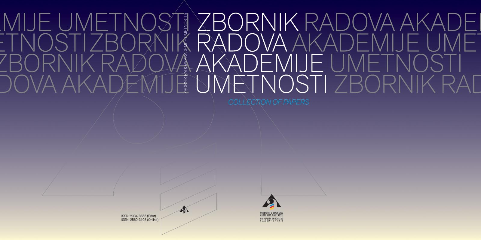 Zbornik Akademije umetnosti, Novi Sad, Serbia